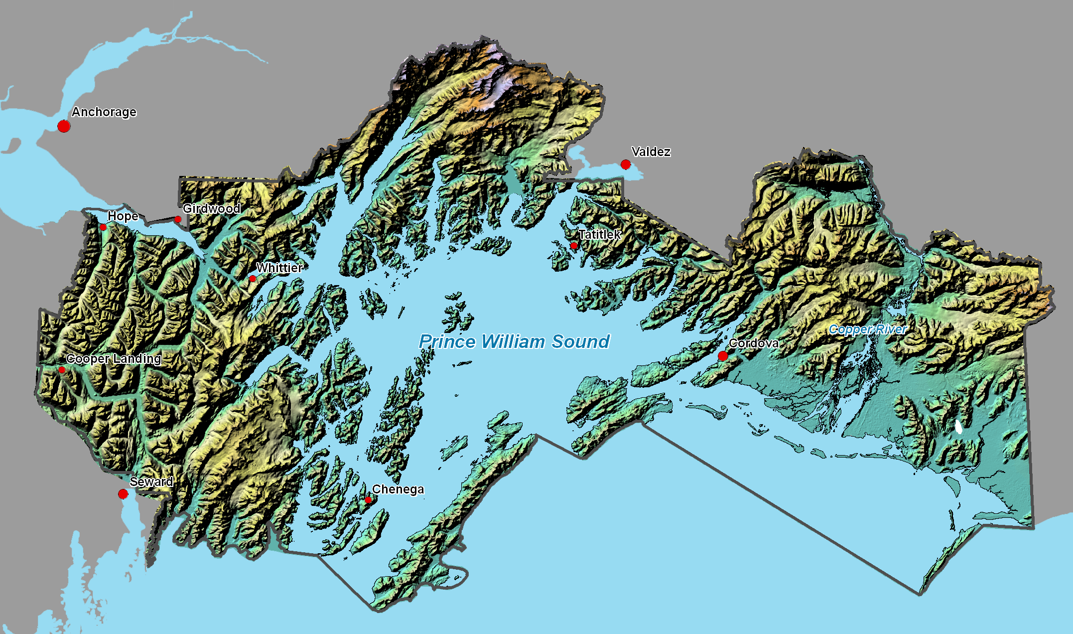 A shaded-relief map showing the extent of the Chugach National Forest.